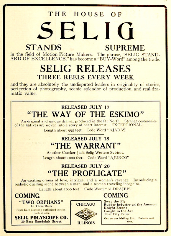 Advertisement for Selig one-reel drama films in 1911, including The Way of the Eskimo, The Warrant, and The Profligate; published in The Moving Picture World, July 15, 1911, p. 59.